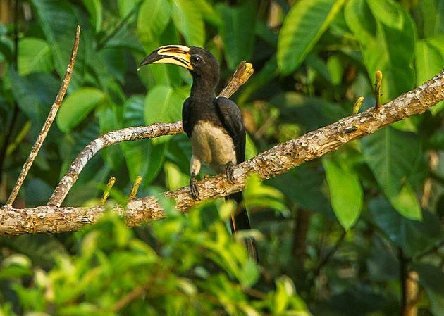 African pied hornbill in Hgana